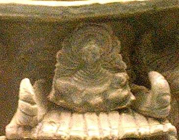 Jin vase, Buddha detail. Shanghai Museum. 2005. Personal photograph.